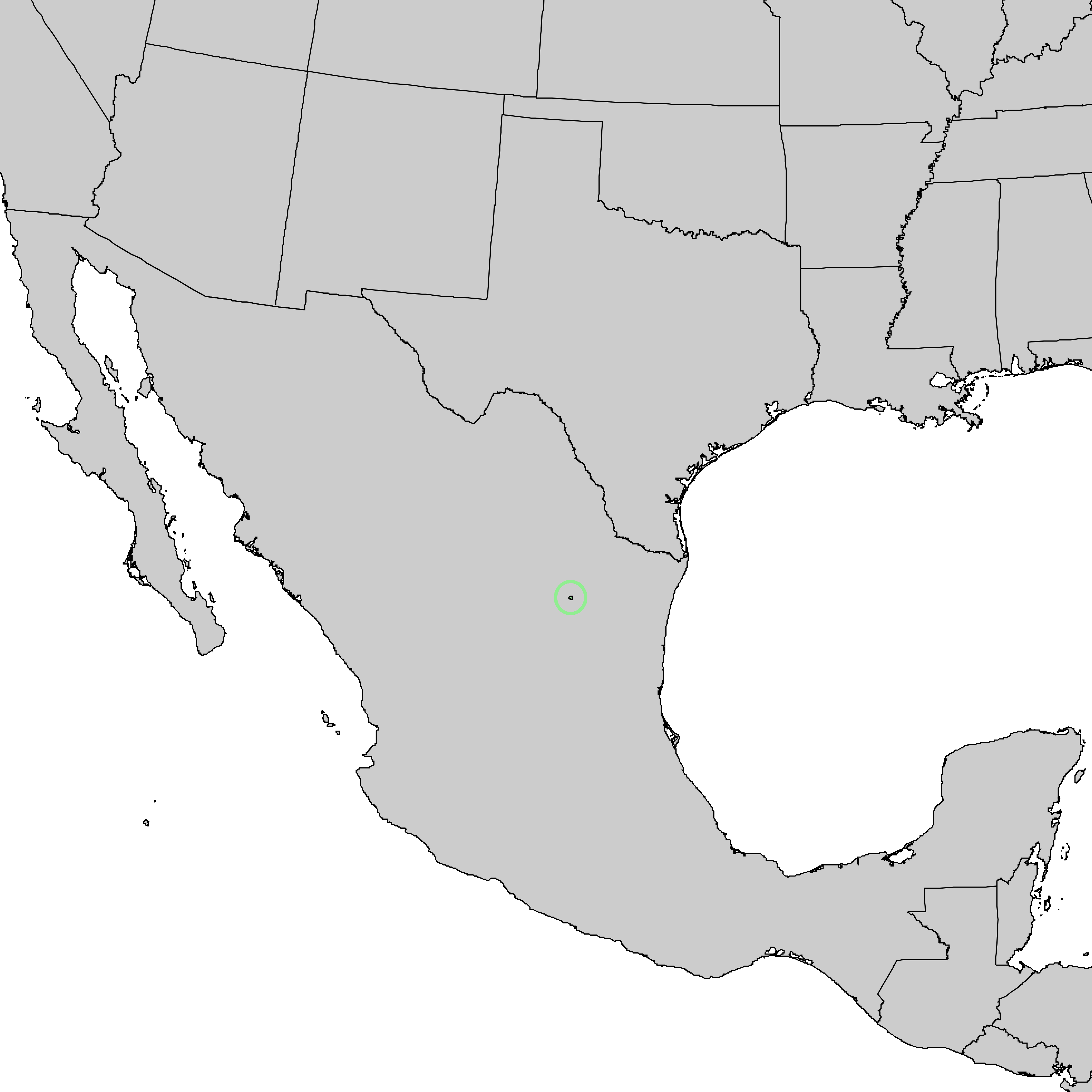 Natural distribution map for Pinus culminicola